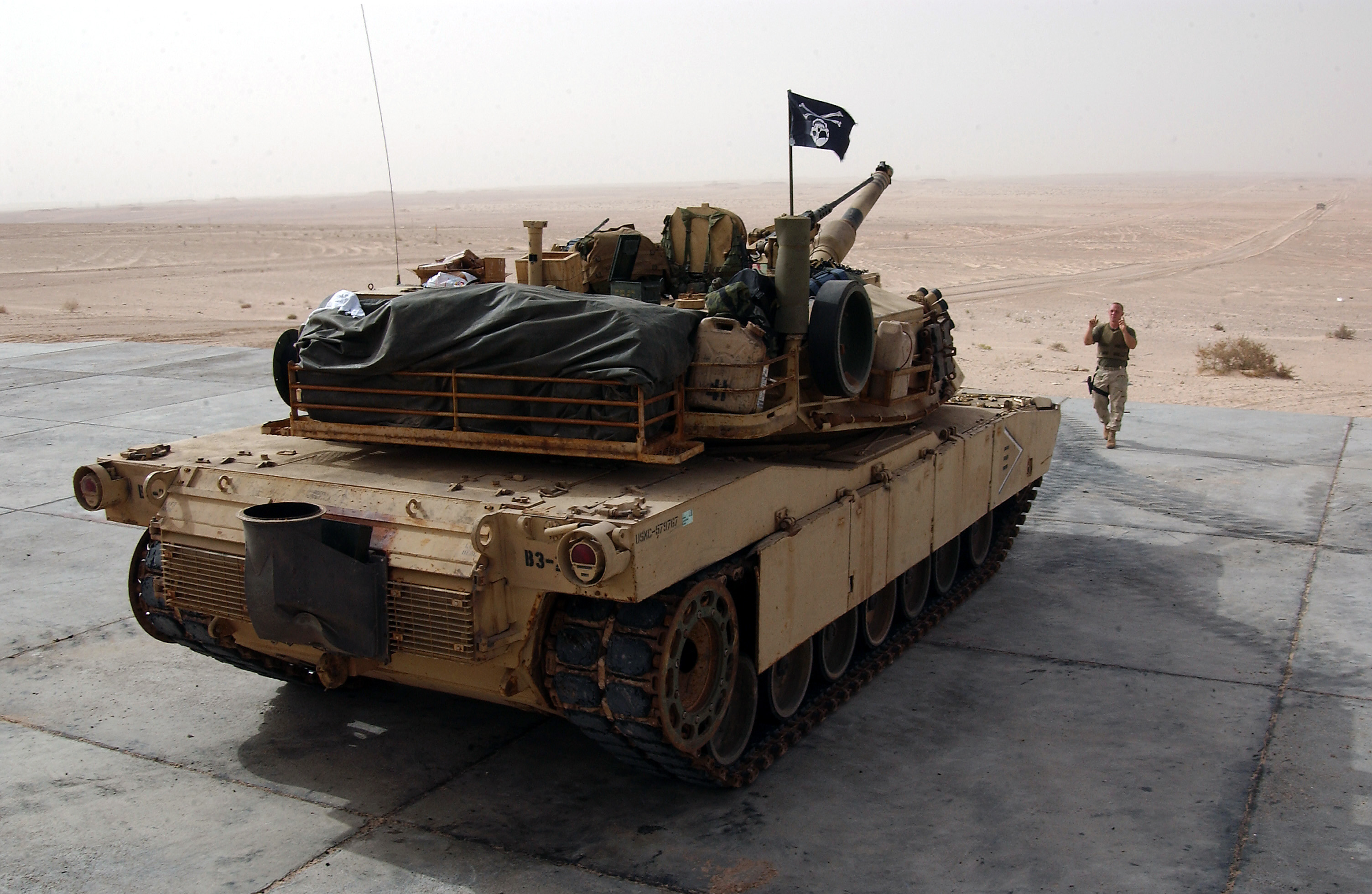 Central Command Area of Responsibly (Dec. 14, 2003) -- A Marine from the 13th Marine Expeditionary Unit (13th MEU) Tank Platoon BLT 1/1 stationed at Twentynine Palms, Calif., directs an M1-A1 Abrams tank during a training exercise. 13th MEU is assigned to USS Peleliu (LHA 5) Expeditionary Strike Group One (ESG-1). An ESG constitutes a new naval strike force designed to equip amphibious forces with added firepower and operational capabilities. ESG-1 is currently deployed to the Commander, U.S. Fifth Fleet Area of Responsibility in support of Operations Enduring Freedom and Iraqi Freedom. U.S. Navy photo by Photographer’s Mate 1st Class Ted Banks. (RELEASED)